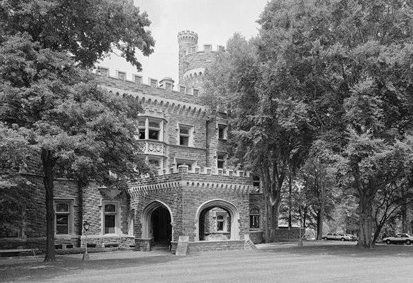 Grey Towers — 450 South Easton Road, Beaver College, Glenside (Montgomery County, Pennsylvania) A Historic American Buildings Survey—HABS image. (cropped)